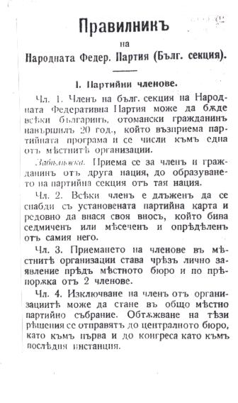 Statutes of the People's Federative Party (Bulgarian Section).jpg